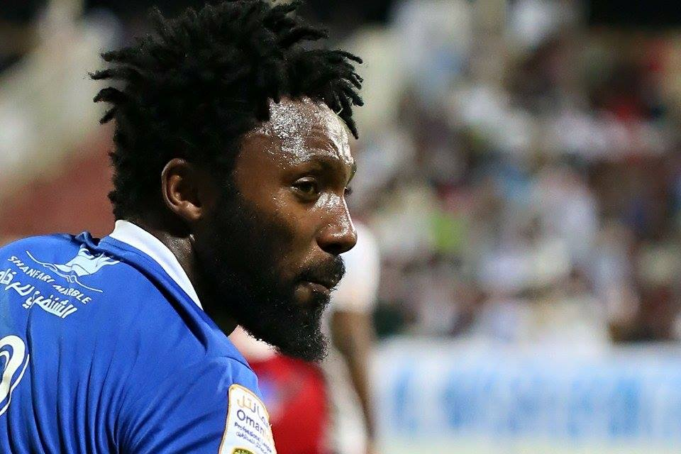 Jamal Mohammed during a match against Dhofar Club for Al Nasr in 2014-15 Oman Professional League. 20 February 2015 Al-Saada Stadium Photographer email id